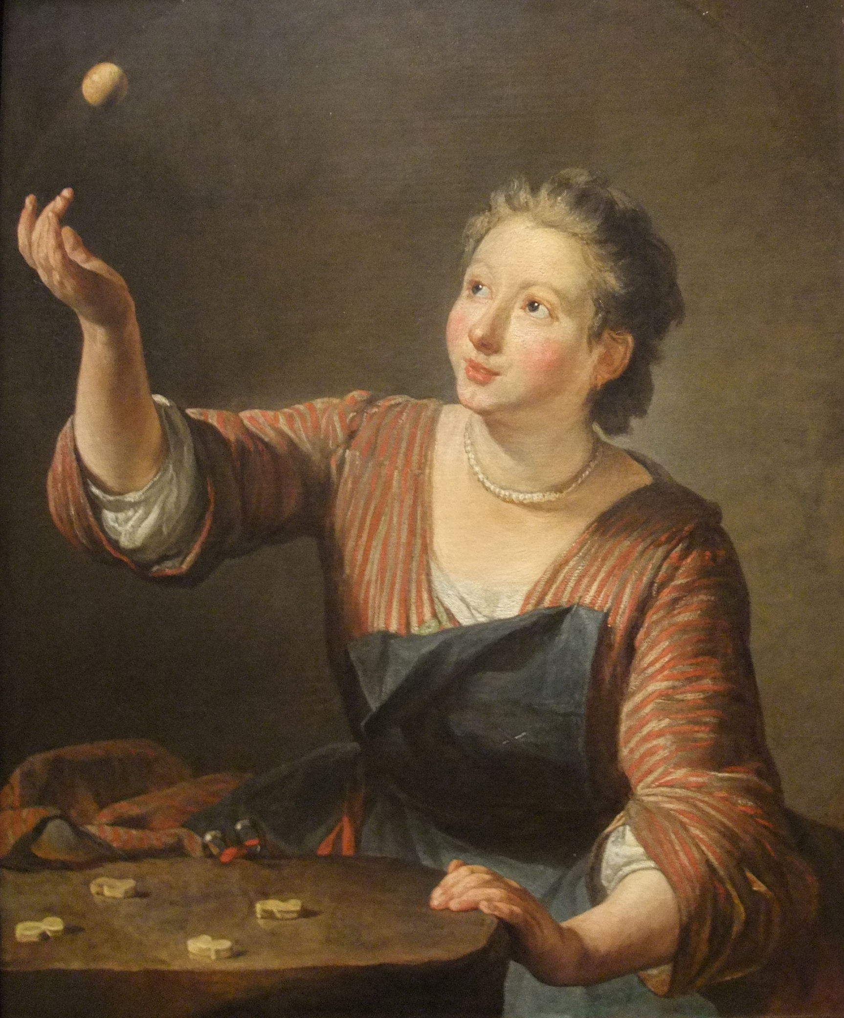 A painting of a girl play knucklebones